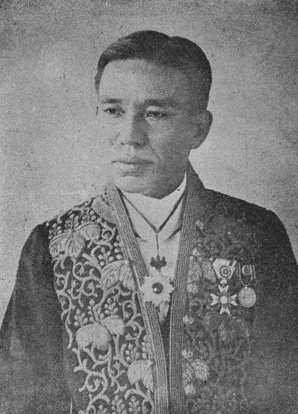 Portrait of Iwai Tatsumi (祝辰巳, 1865 – 1908)